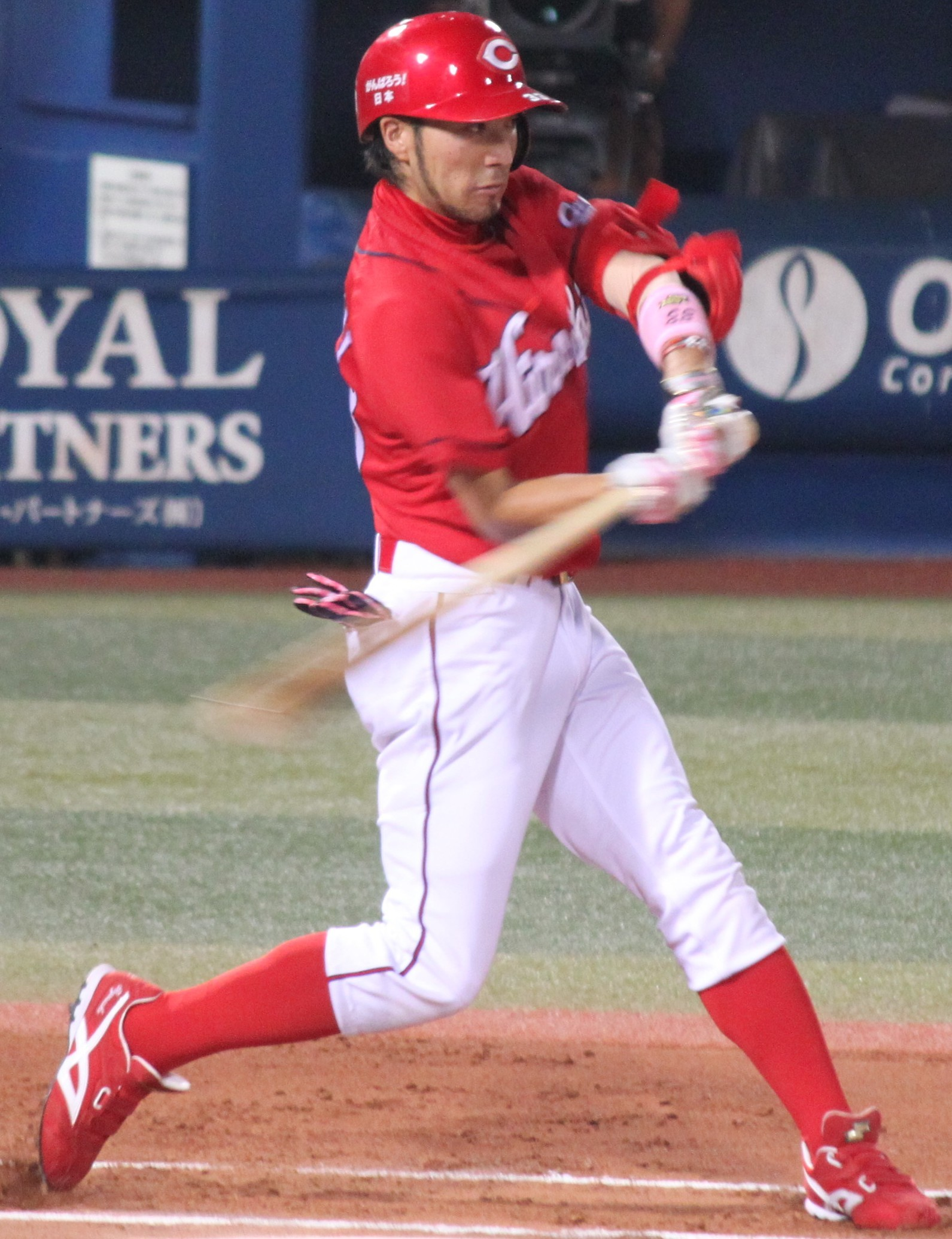 Ryosuke Kikuchi, infielder of the Hiroshima Toyo Carp, at Yokohama Stadium.